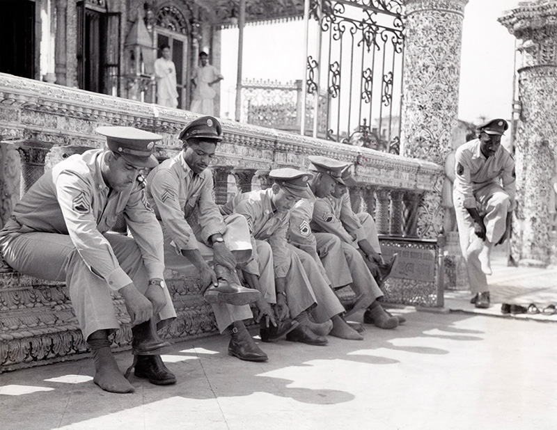 US soldiers remove their shoes before entering the Calcutta Jain Temple, Calcutta, India, 1943